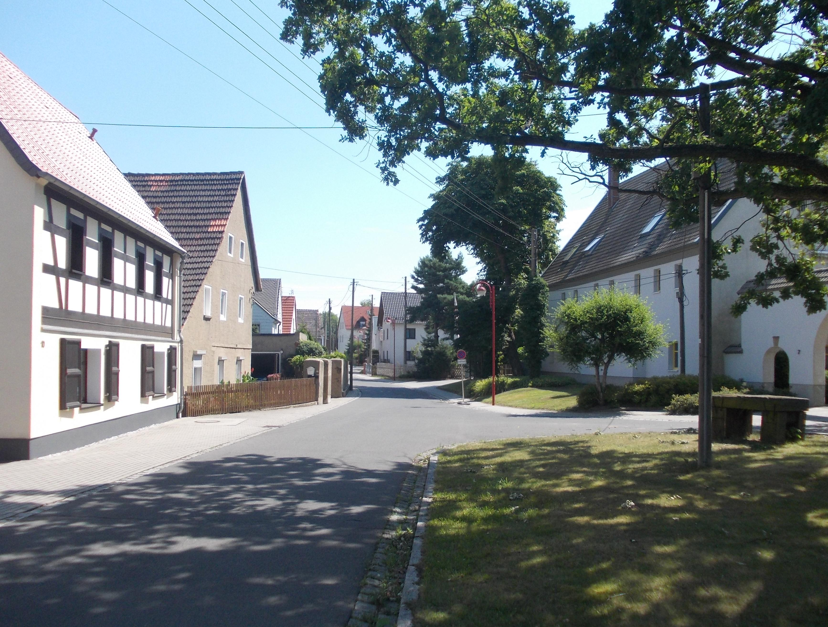 Square in Pflichtendorf (Meuselwitz, Altenburger Land district, Thuringia)